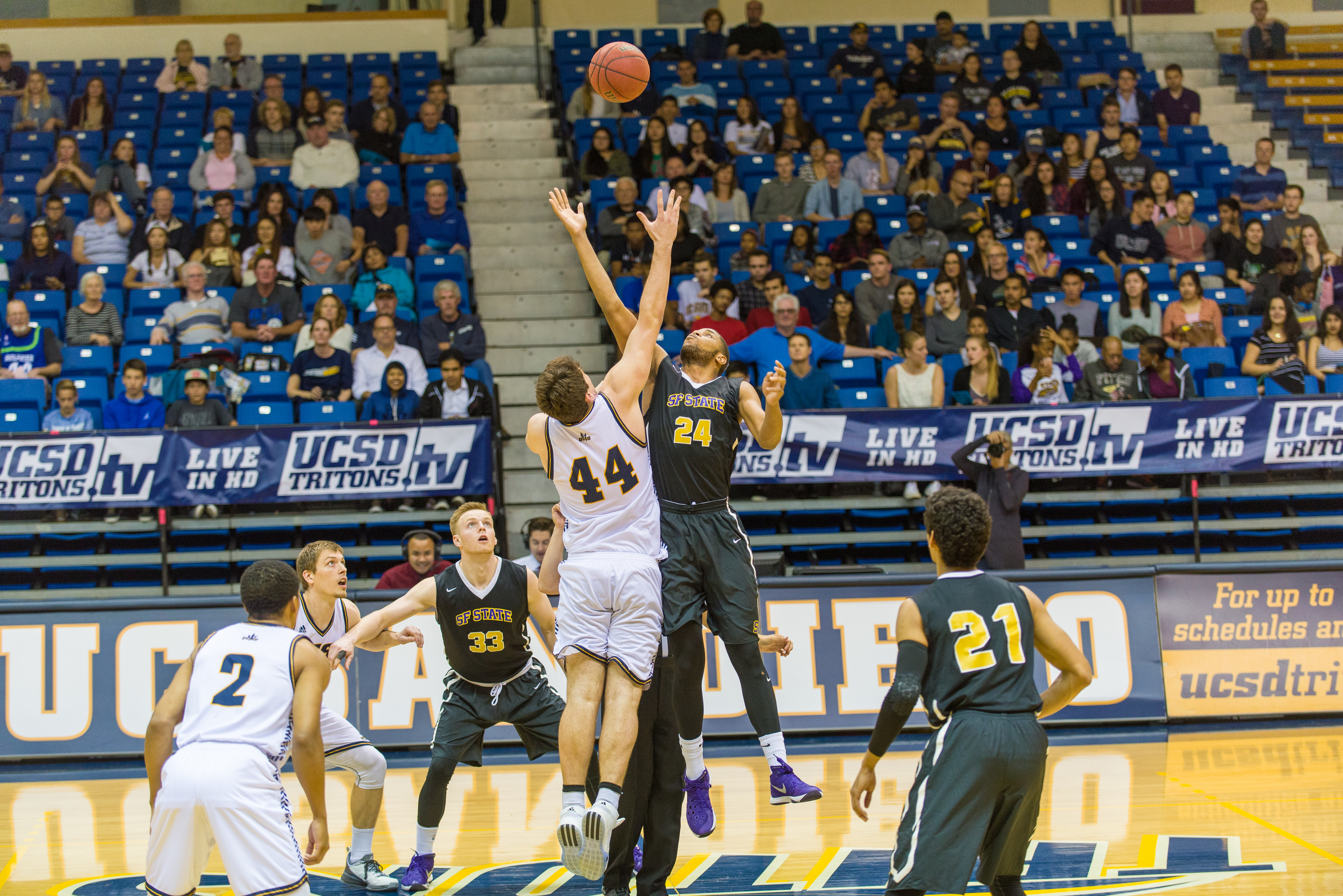 UCSD Tritons men's basketball player Chris Hansen (44) goes for the tipoff in an eventual 76-74 home victory over San Francisco State University. Tritons players Grant Jackson (2) and Adam Klie (13) await the start of play.